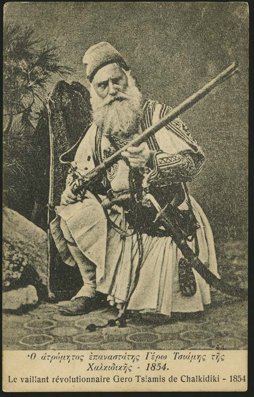 The text reads "The valiant revolutionary Yero Tsiamis of Chalkidiki - 1854" (in Greek and in French). Carte postale published in Greece or in the Macedonia during the Ottoman rule of Greece. This type of postcards were published just after the Macedonian struggle conflicts ended. When the revolution of "Young Turks" in 1908, the new constitution promised to respect the right to self-determination of all ethnicities and religions. These postcards were later soon banned in the years before the Balkan Wars. Yero Tsiamis operated in various Greek Macedonian revolts against the Ottoman Empire